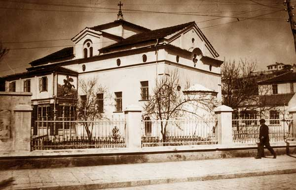 St. Demetrious Church in Skopje, Macedonia